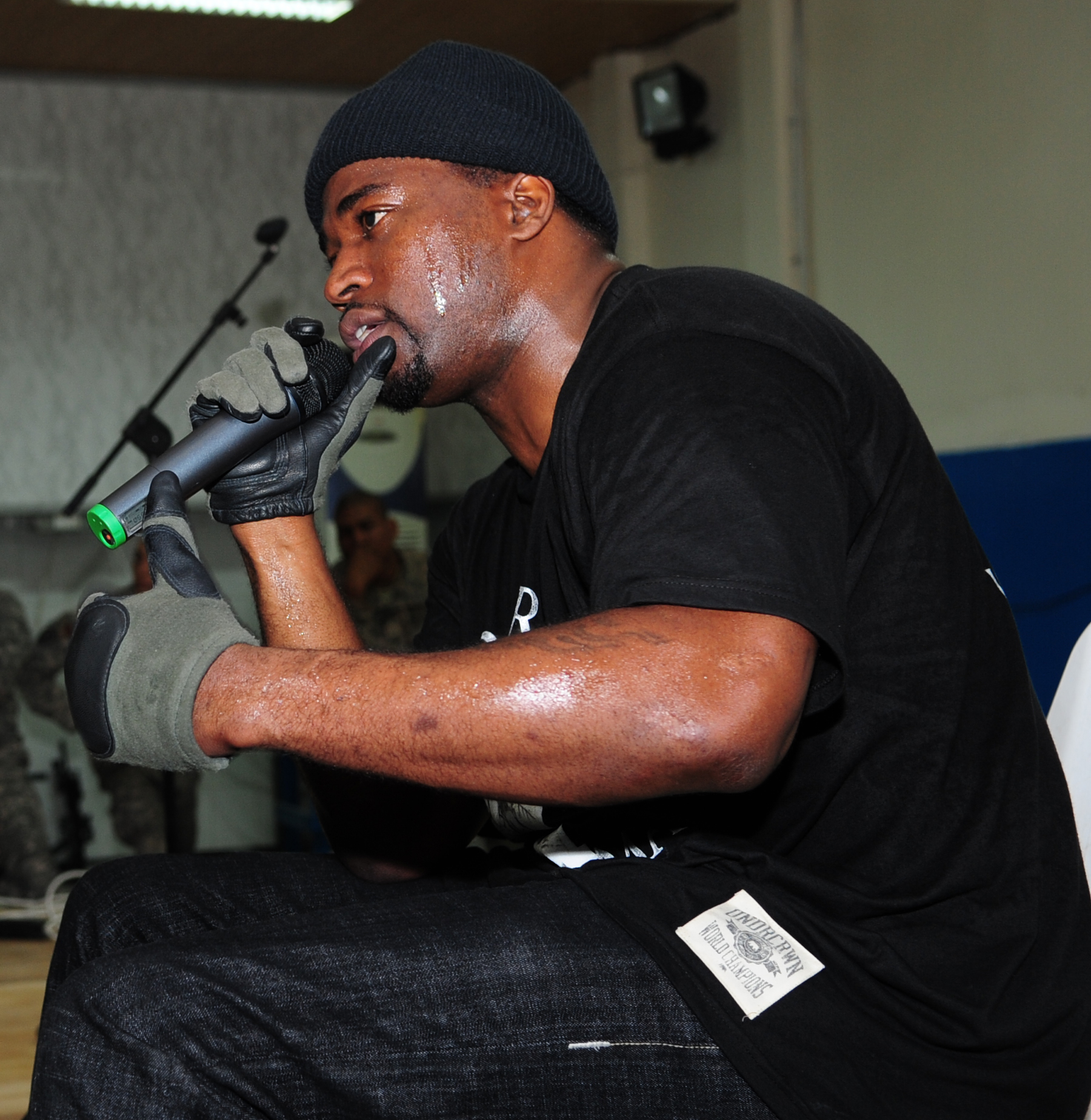 David Banner at Forward Operating Base Brassfield Mora, Iraq